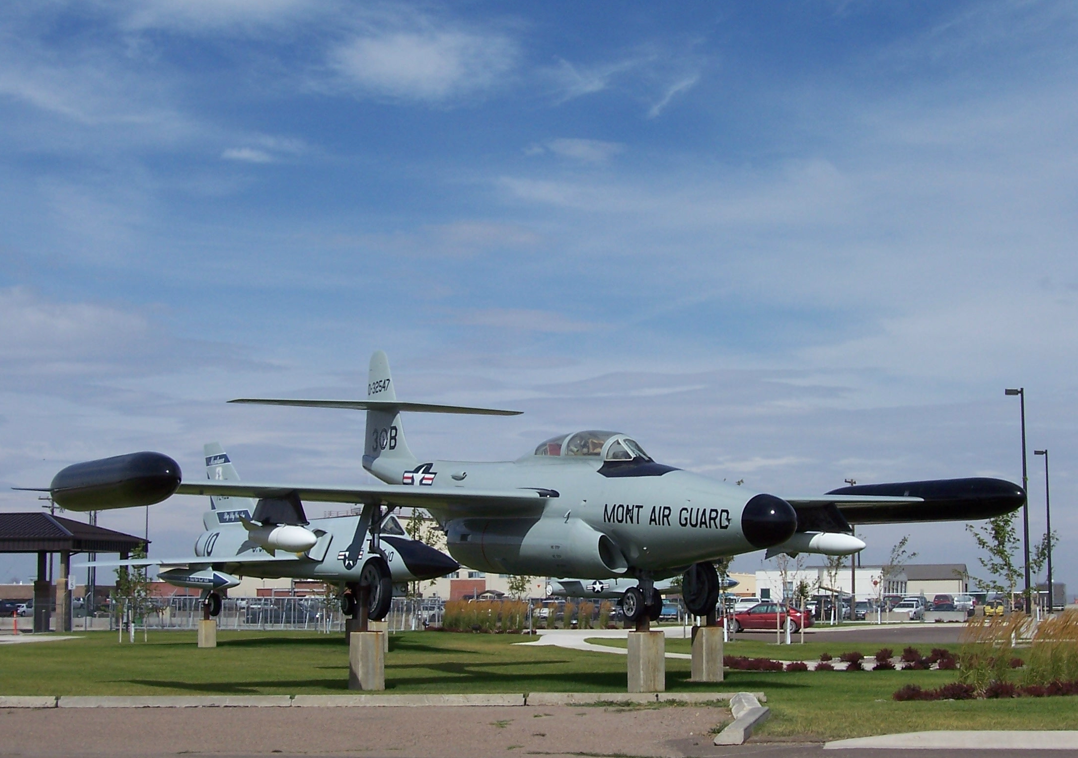 A former U.S. Air Force Northrop F-89J Scorpion (s/n 53-2547) on display at Great Falls Airport, Montana (USA). This F-89 was used in the only live rocket test of a nuclear AIR-2 Genie rocket. The white rockets hanging under the wings are inert replicas of the Genie. It was later in service with the 186th Fighter-Interceptor Squadron, 120th Fighter-Interceptor Wing, Montana Air National Guard. In the background is a F-106A Delta Dart.